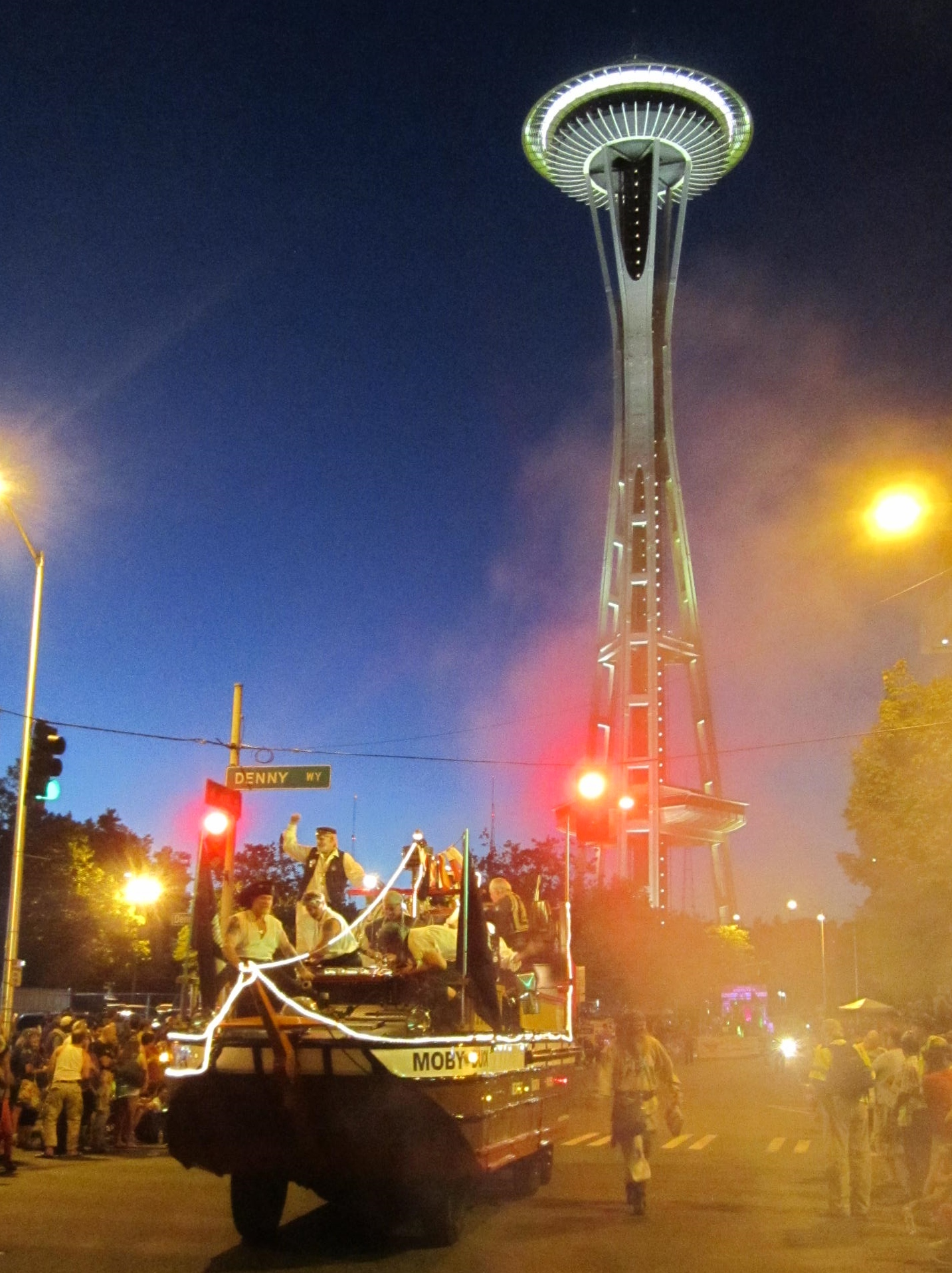 The Seafair Pirates at Seattle's annual Torchlight parade with Seattle's Space Needle in the background.